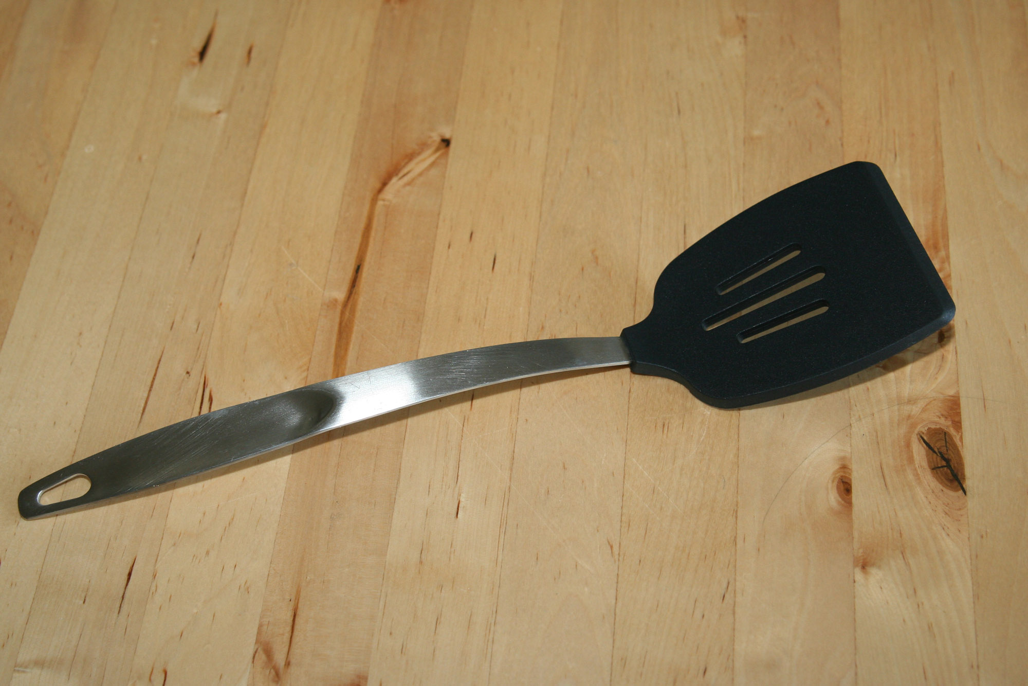 Spatula with blade of rubber.